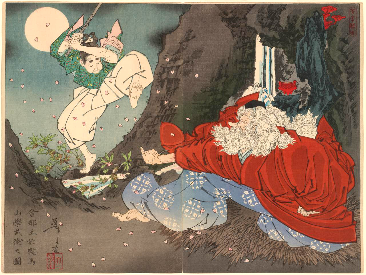 Yoshitoshi Sōjōbō (right) provides instructions in swordsmanship to Minamoto Yoshitsune (left). Sojobo Instructs Yoshitsune in the Sword (The king of the Tengus teaching martial arts to Yoshitsune).